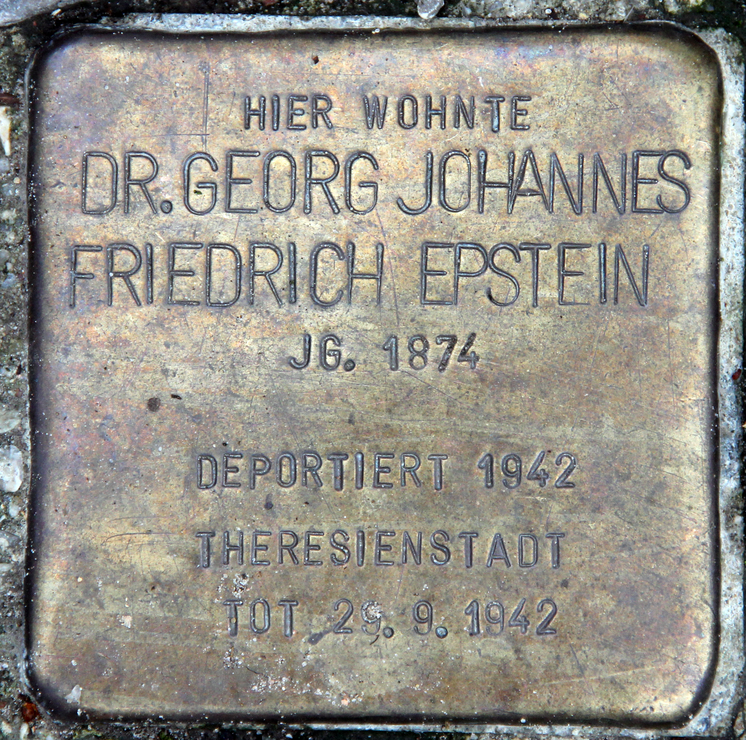 "Stolperstein" (stumbling block), Georg Freiherr von Eppstein, Potsdamer Straße 32, Berlin-Lichterfelde, Germany Koordinate:52°26′24″N 13°17′49″E / 52.44°N 13.29694°E